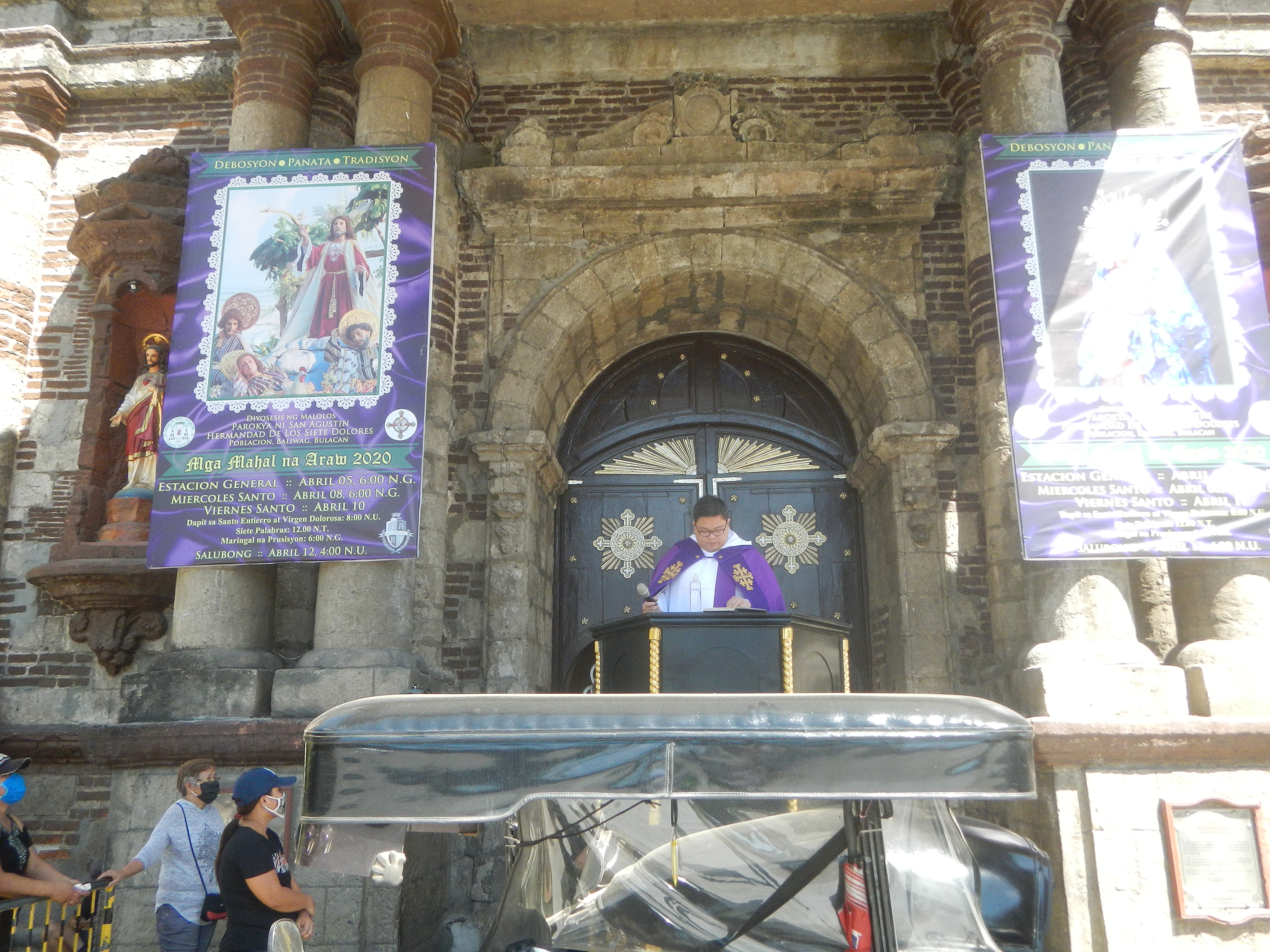 Catholic funeral rites for a baby during the COVID-19 pandemic in Baliuag, Bulacan Timeline of the 2020 coronavirus pandemic in the Philippines 2020 coronavirus pandemic in the Philippines Bayanihan to Heal as One Act (RA 11469) Bayanihan Act of 2020. Signed on March 24, 2020 [1] COVID-19 bringing the total to 2633 cases in the Philippines Category:Sitios and puroks of the Philippines Subdivisions of the Philippines Barangays Poblacion 14°57'17"N 120°54'2"E and Santo Cristo 14.9522, 120.9259 , Baliuag, Bulacan, Bulacan province (Note: Judge Florentino Floro, the owner, to repeat, Donor FlorentinoFloro of all these photos hereby donate gratuitously, freely and unconditionally Judge Floro all these photos to and for Wikimedia Commons, exclusively, for public use of the public domain, and again without any condition whatsoever).